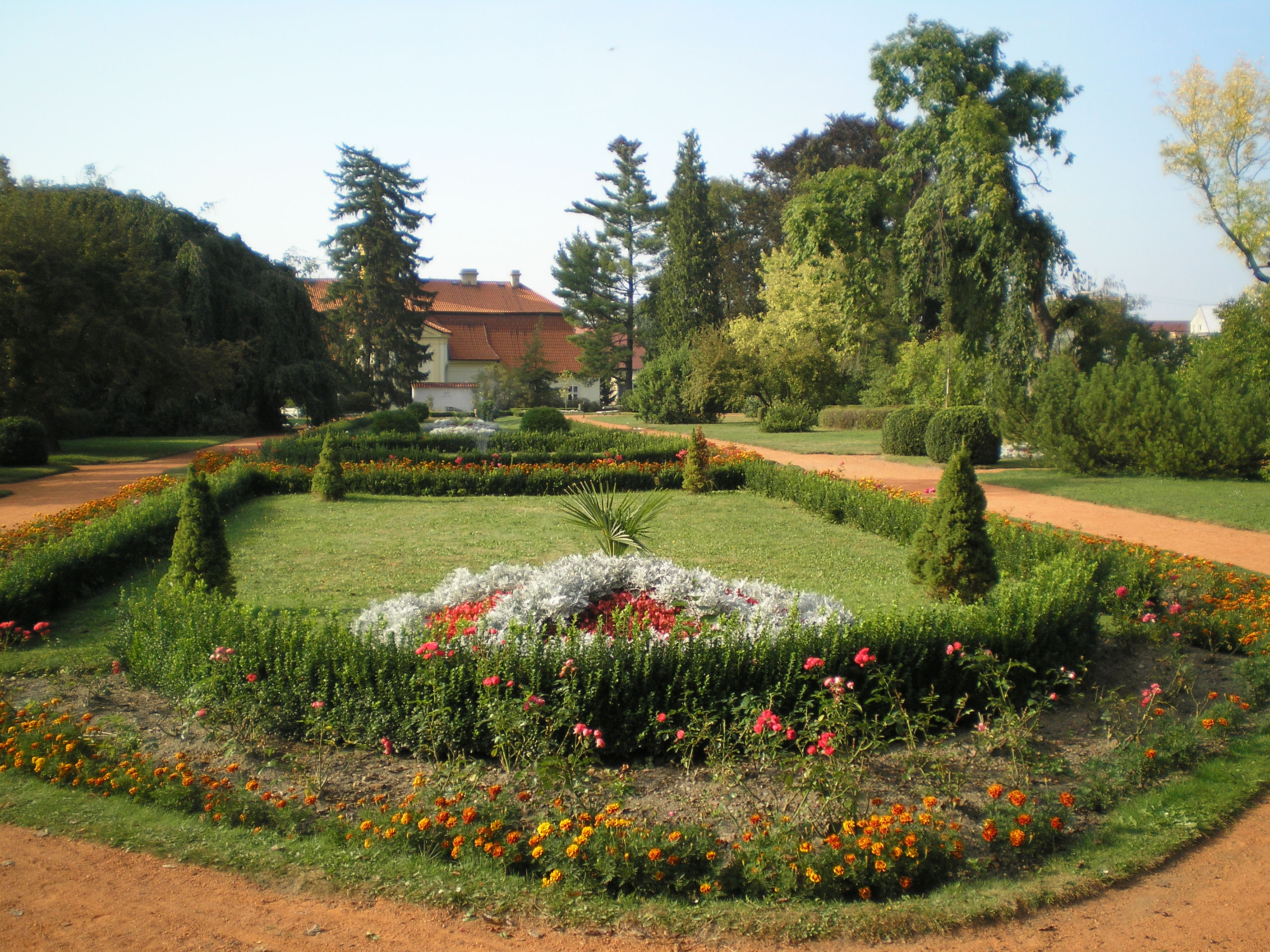 Chrast, castle garden 1